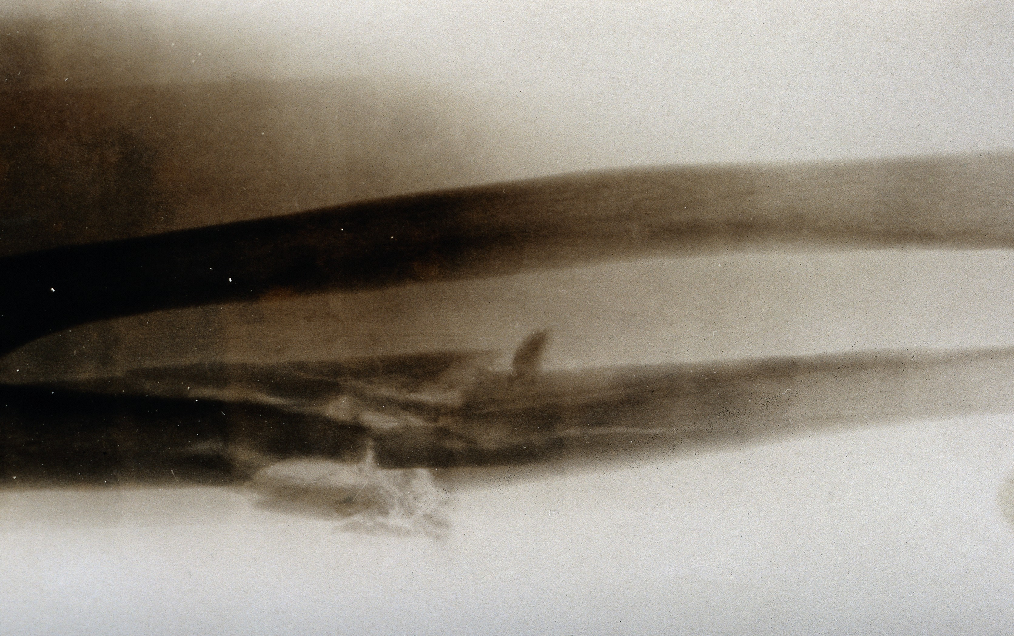 X-ray (of an arm ?), showing a broken bone. Photograph, ca. 1915 Iconographic Collections Keywords: Fractures, Bone; Arm Bones; X-Rays